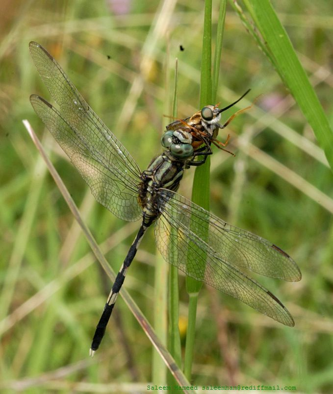 Orthetrum sabina dragonfly, Bannerghatta, India